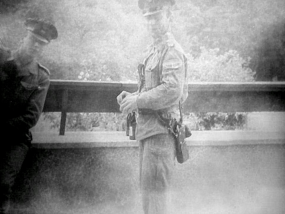 WOP post in Zawoja